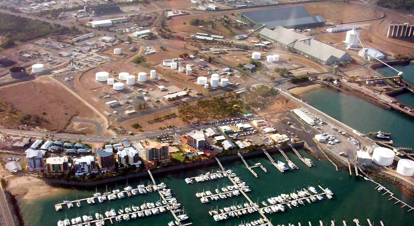 Photo I took of Mackay, Queensland, Australia, from a helicopter, in December 2005.